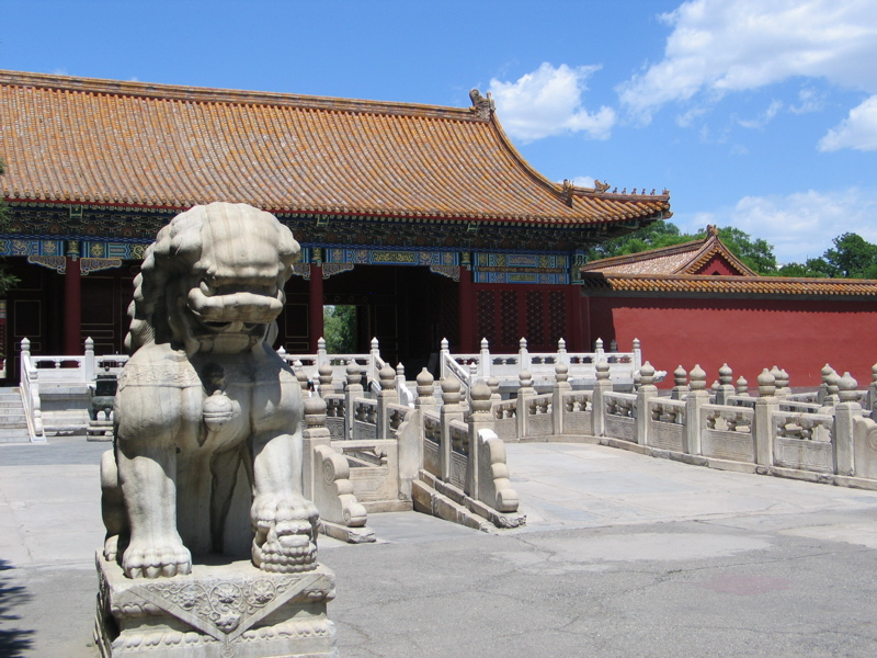 The Forbidden City in Beijing